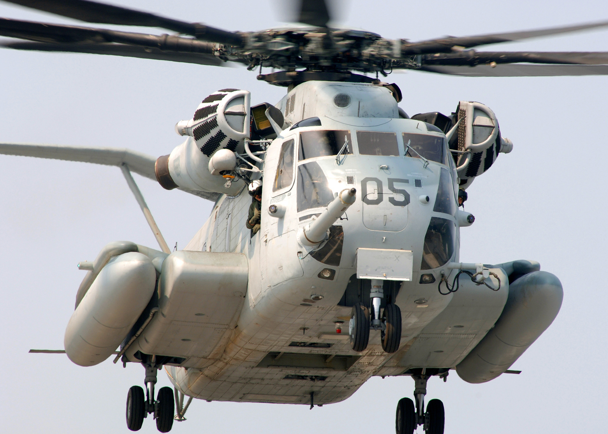 A U.S. Marine Corps CH-53E Super Stallion helicopter approaches the flight deck of the Nimitz-class aircraft carrier USS Harry S. Truman (CVN 75) for landing.